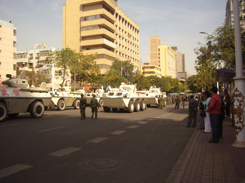 Armed Police soldiers and armored vehicles WZ551 in the street of Urumqi in September 4, 2009. Days before and at the time, tens of thousands of civilians demonstrated around major places in the city, against a series of the hypodermic needle attacks starting in mid-August.